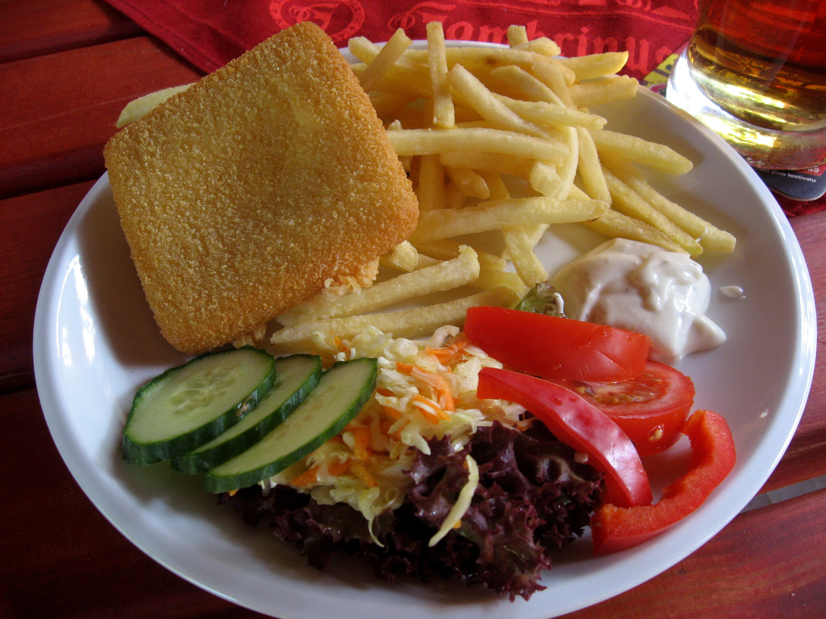 Fried cheese, French fries, tartar sauce, garnish